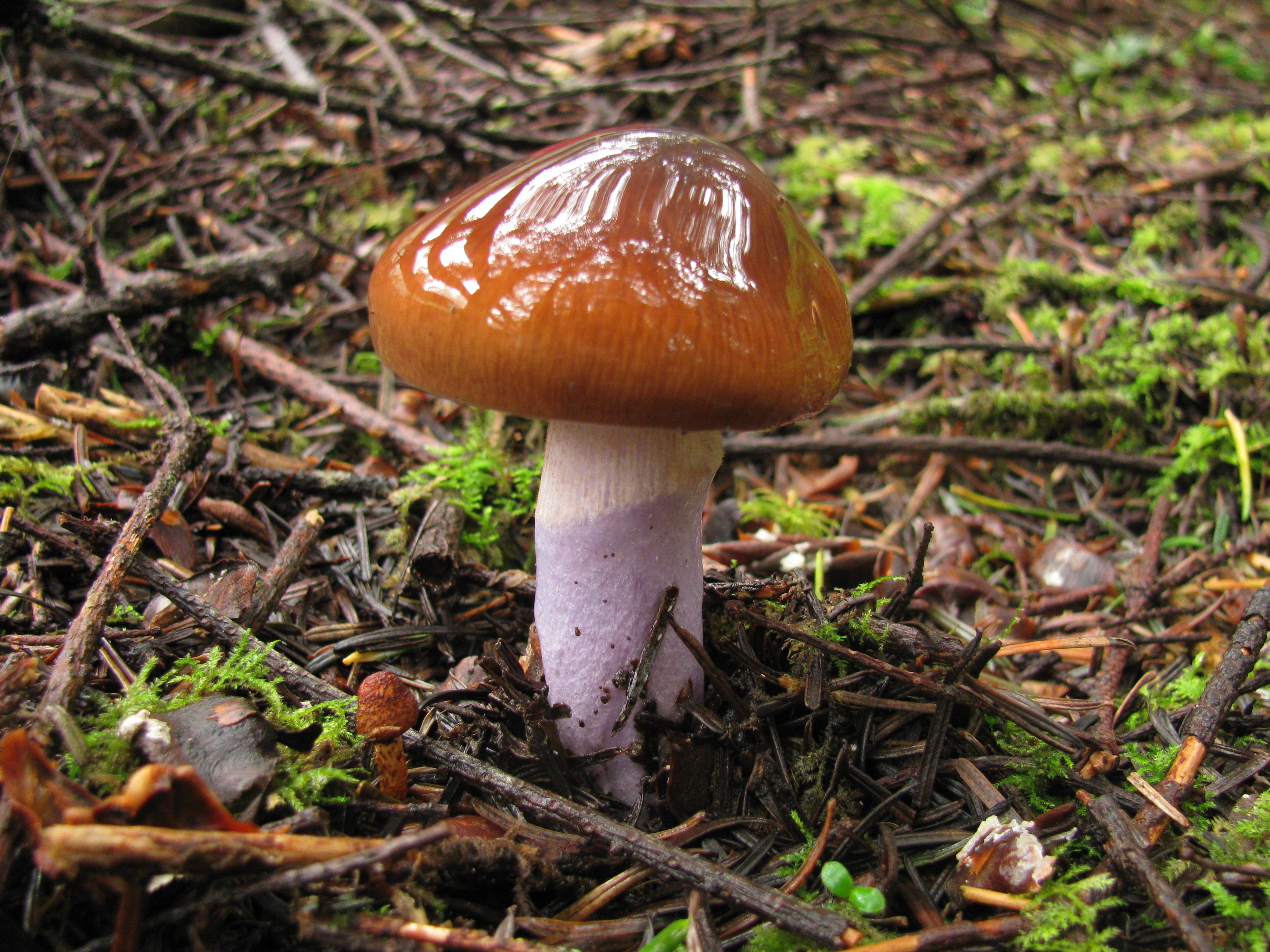 Cortinarius vanduzerensis A.H. Sm. & Trappe Location: Caspar, California, USA For more information about this, see the observation page at Mushroom Observer.